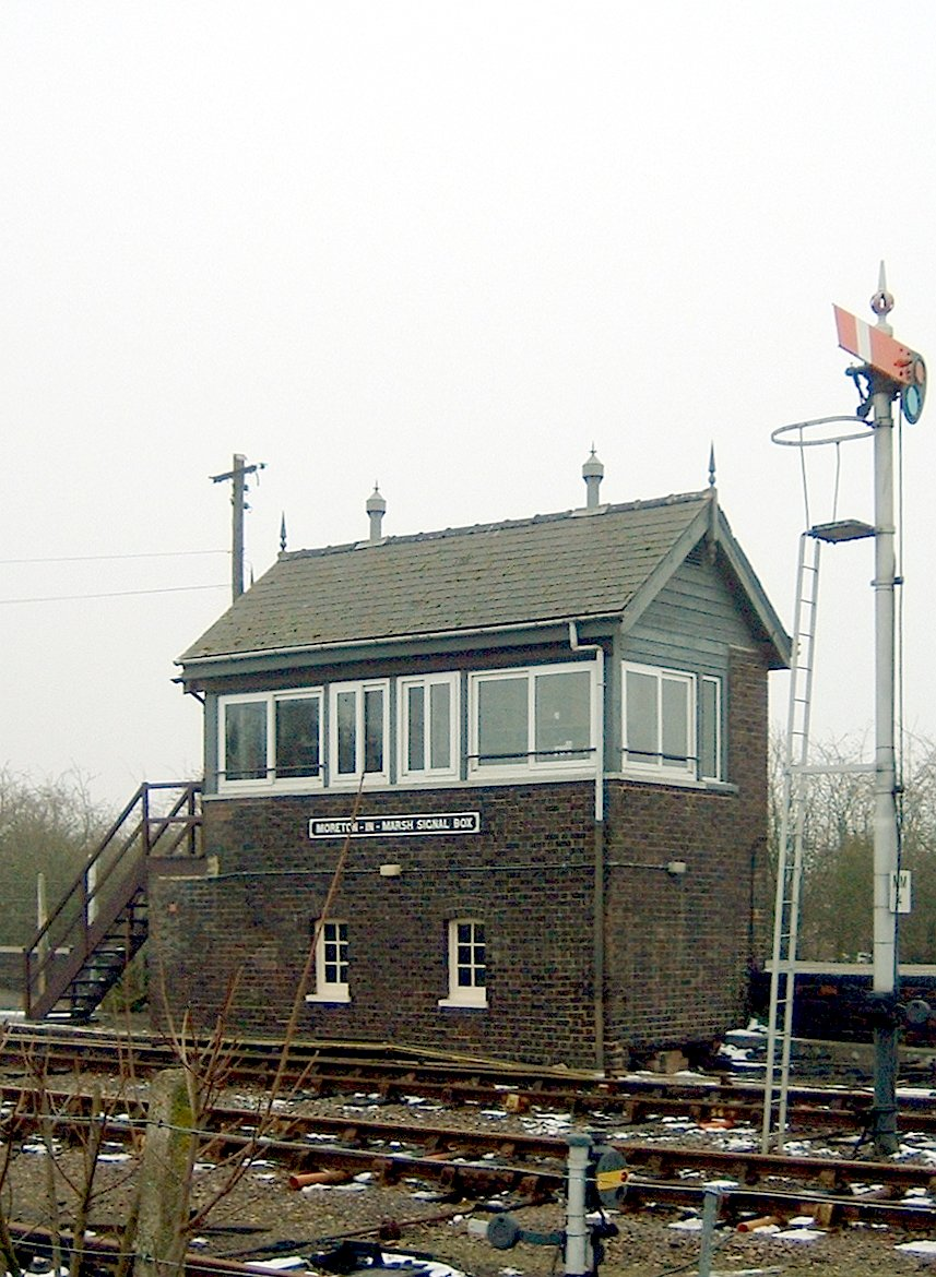 Moreton in Marsh Signaling Post